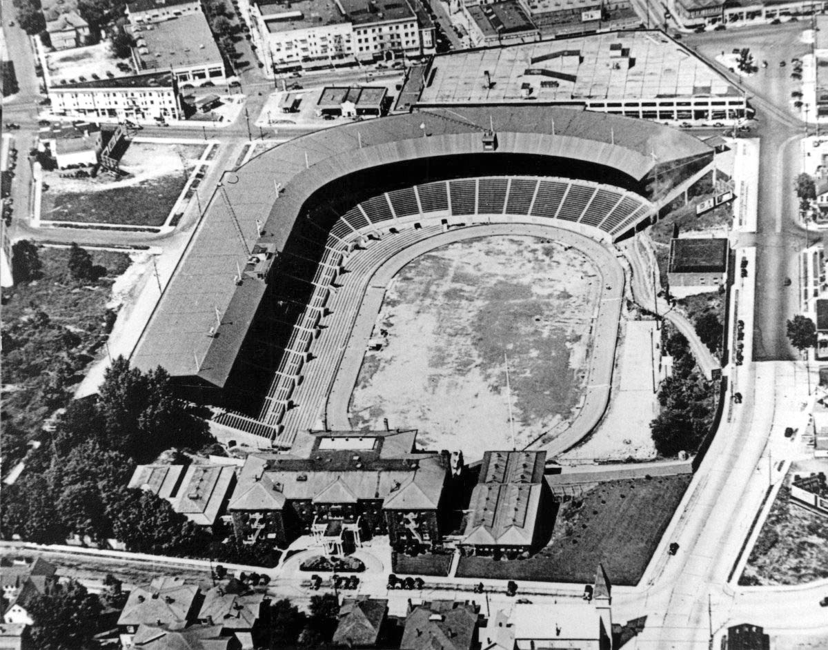 Multnomah Stadium, now known as Jeld-Wen Field